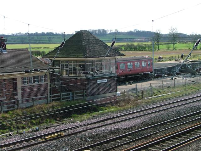 Otterington Signal Box The brick built signal box together with the old station date from the early 1930s when the East Coast Main Line between York and Northallerton was widened. The buildings use pre-cast concrete finished to look like natural stone and are now privately owned, as is the Mark 1 coach which can be seen behind.